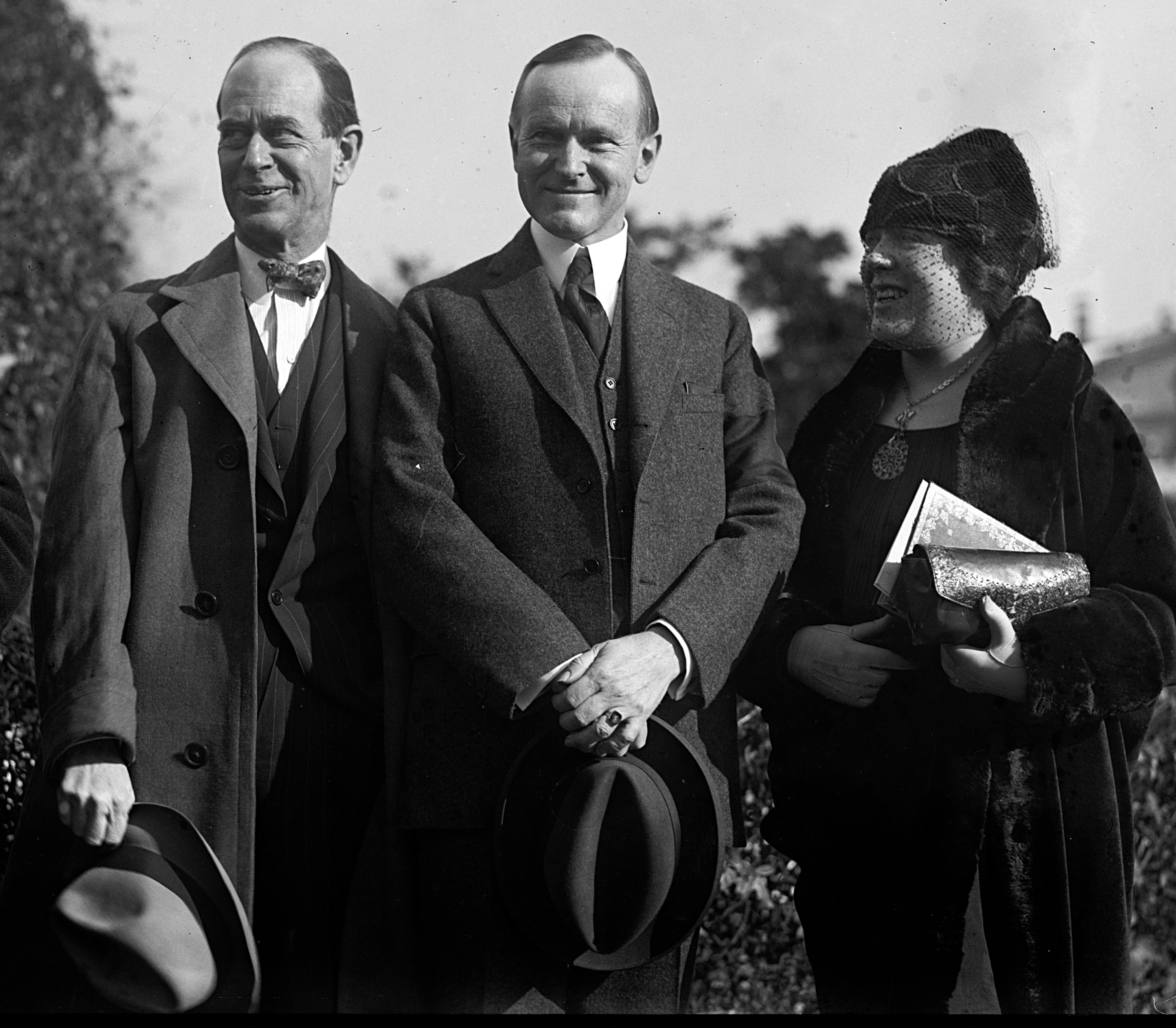 US President Calvin Coolidge (center) with US Senator Joseph M. McCormick and Nancy Cox McCormick